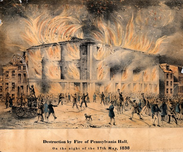 The Burning of Pennsylvania Hall on May 17th 1838